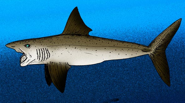 reconstruction of the Eugenodontid shark-like cartilaginous fish Helicoprion bessonovi, of Permian Russia